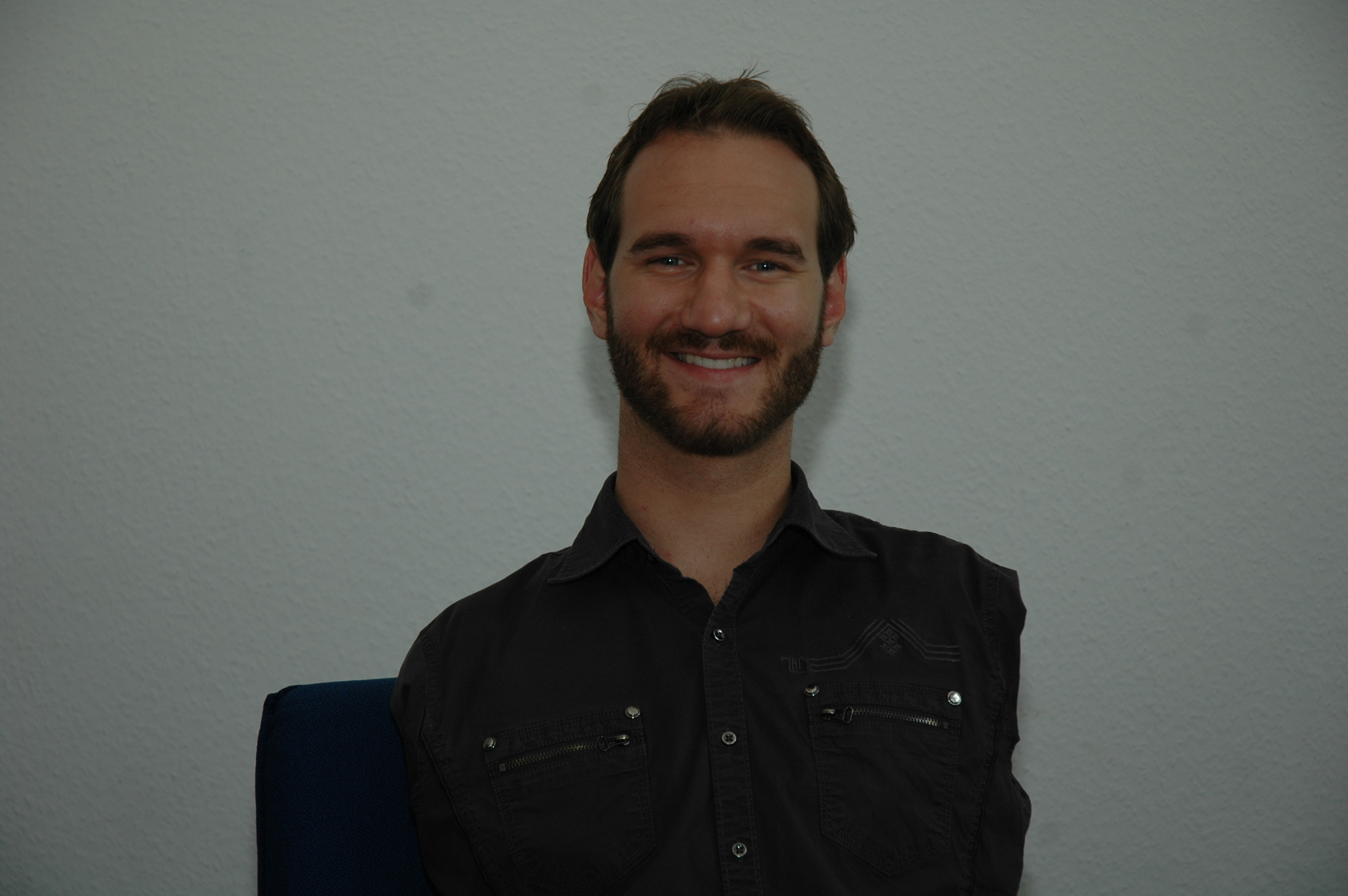 Nick Vujicic speaking in a church in Ehringshausen, Lahn-Dill-Kreis, Hesse, Germany.